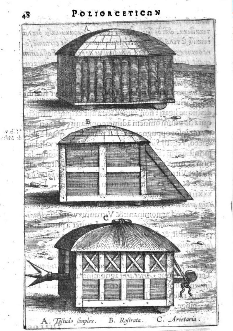 Roman Testudines and Testudo Arietaria (Testudo with Battering Ram)